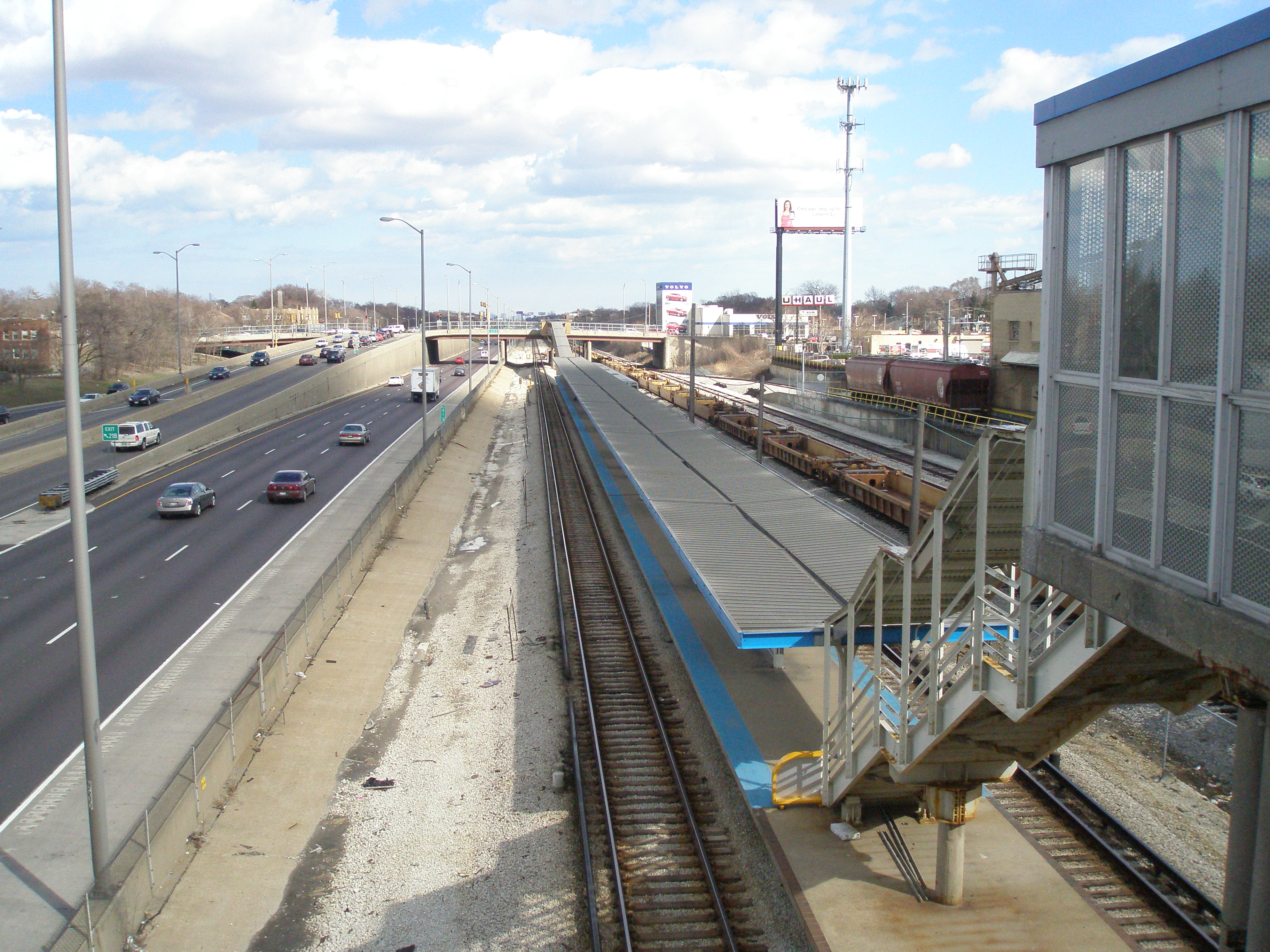 Looking down onto the 'L' station, viewed from the Circle Dr. overpass.